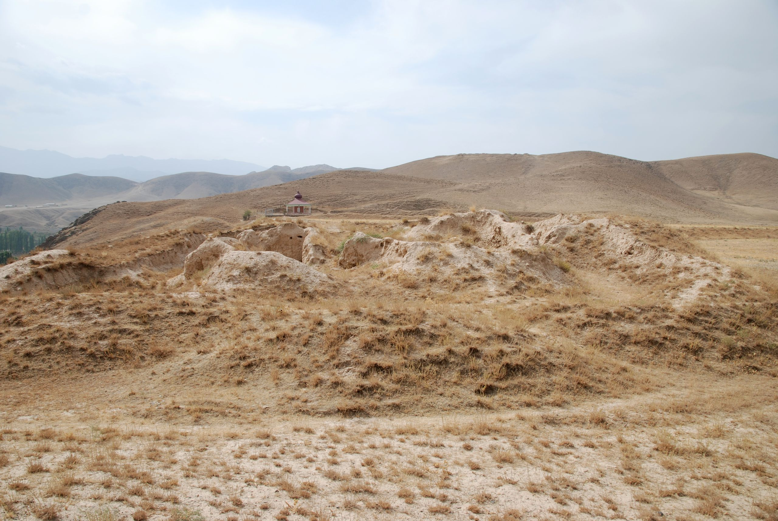 Bunjikat, Kala-i Kahkaha 2, palace